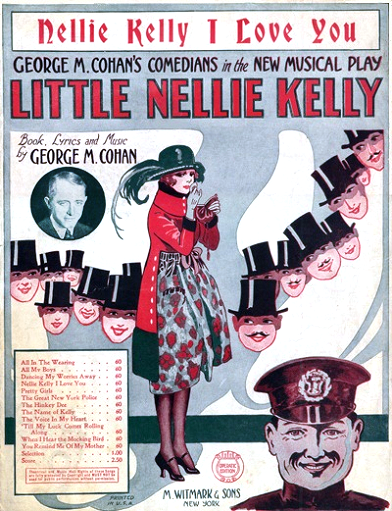 Cover of Little Nellie Kelly, sheet music for the musical play by George M. Cohan (M. Witmark & Sons, 1922)